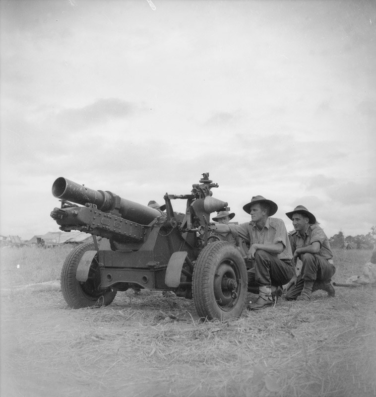 MARKHAM VALLEY, NEW GUINEA. 1944-08-28. THE CREW OF A SHORT 25 POUNDER GUN FROM 12 BATTERY TAKE UP THEIR POSITIONS ON THE RANGE OF THE 4TH FIELD REGIMENT. IDENTIFIED PERSONNEL ARE: VX83163 SERGEANT J.O. KENNEDY (1); VX83164 GUNNER J.L. KIRBY (2); VX149542 GUNNER T.M. NAUGHTIN (3).